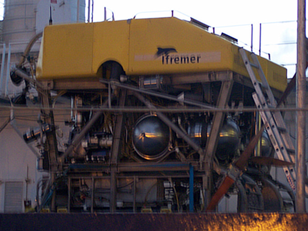 A submarine-robot (the ROV Victor 6000) aboard the Pourquoi-pas ? in Horta, Fayal.